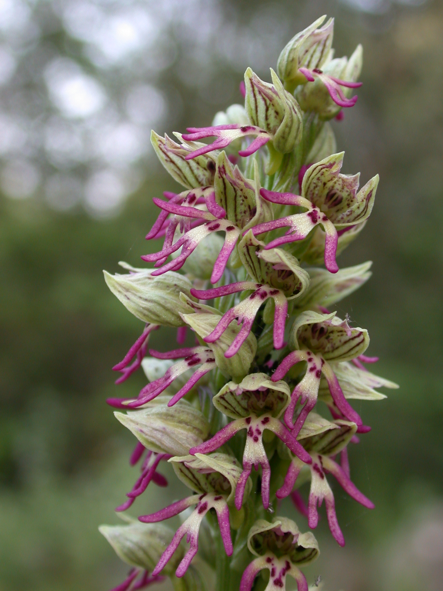 Orchis galilaea, Mount Carmel, Israel, March 19, 2006.